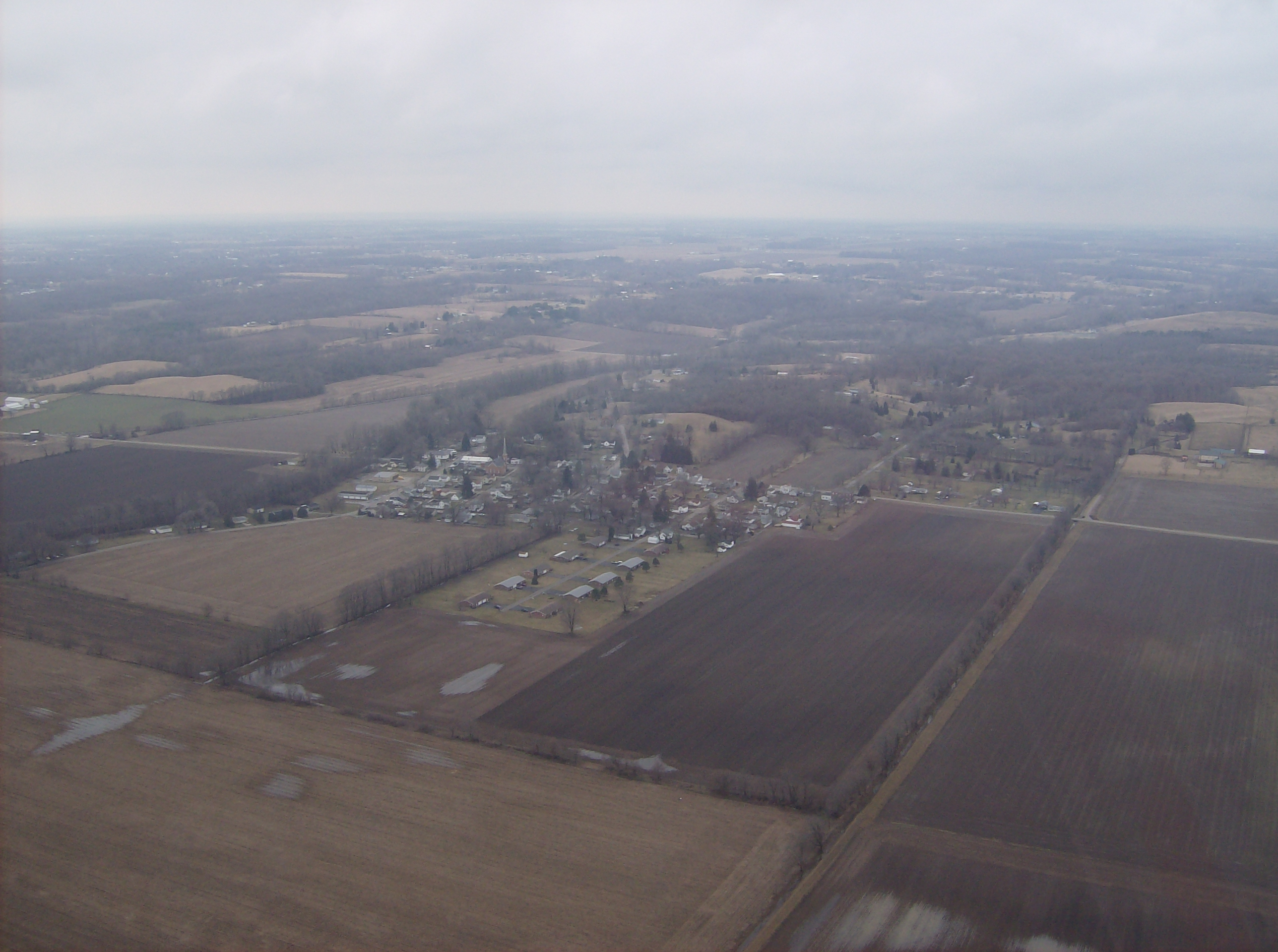 Aerial view of Tremont City in northeastern German Township, Clark County, Ohio, United States. Picture taken from a Diamond Eclipse light airplane at an altitude of 2,000 feet MSL and a bearing of approximately 272º.